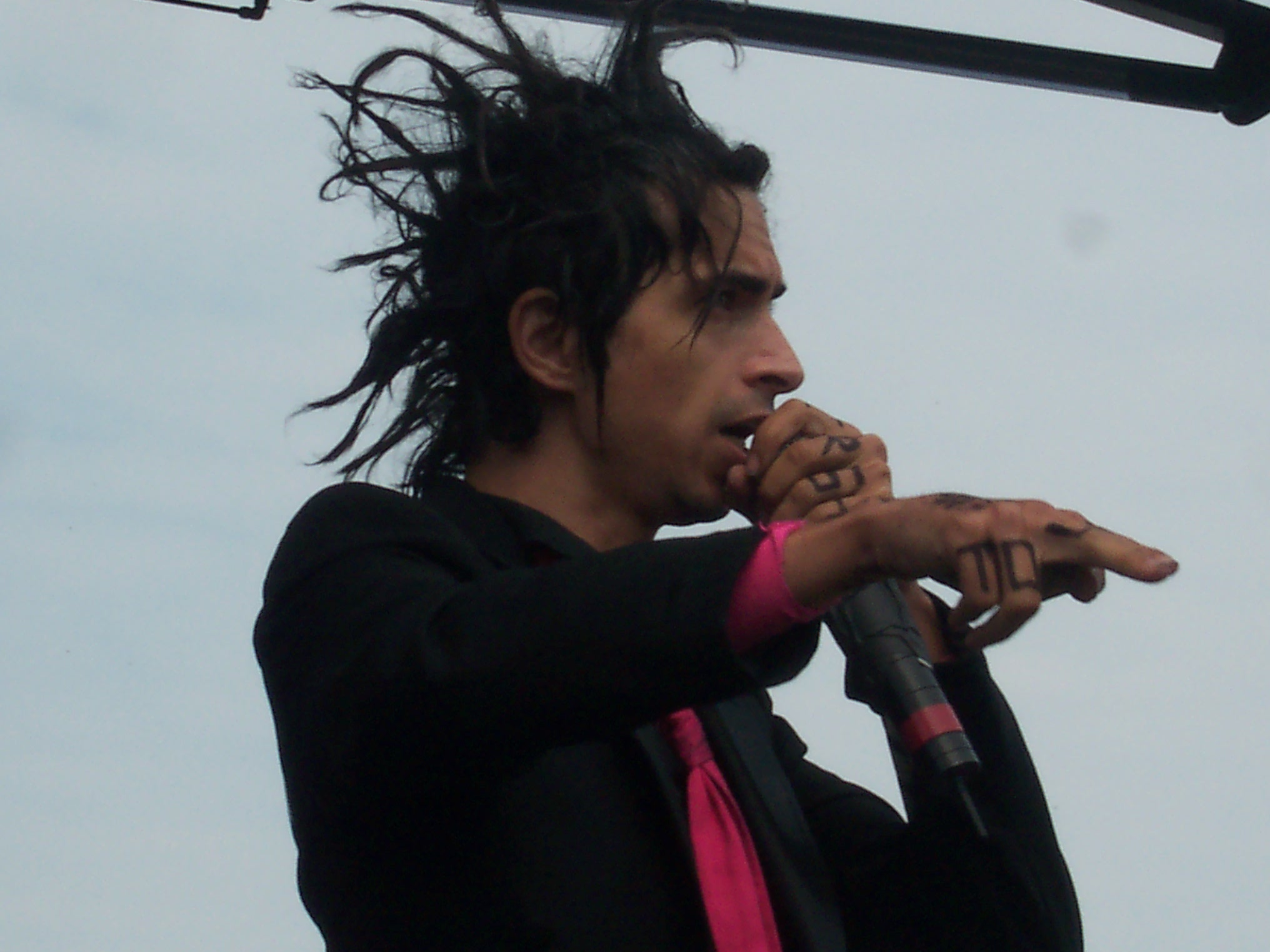 Little Jimmy Urine at Projekt Revolution 2007 in Wantagh, NY.